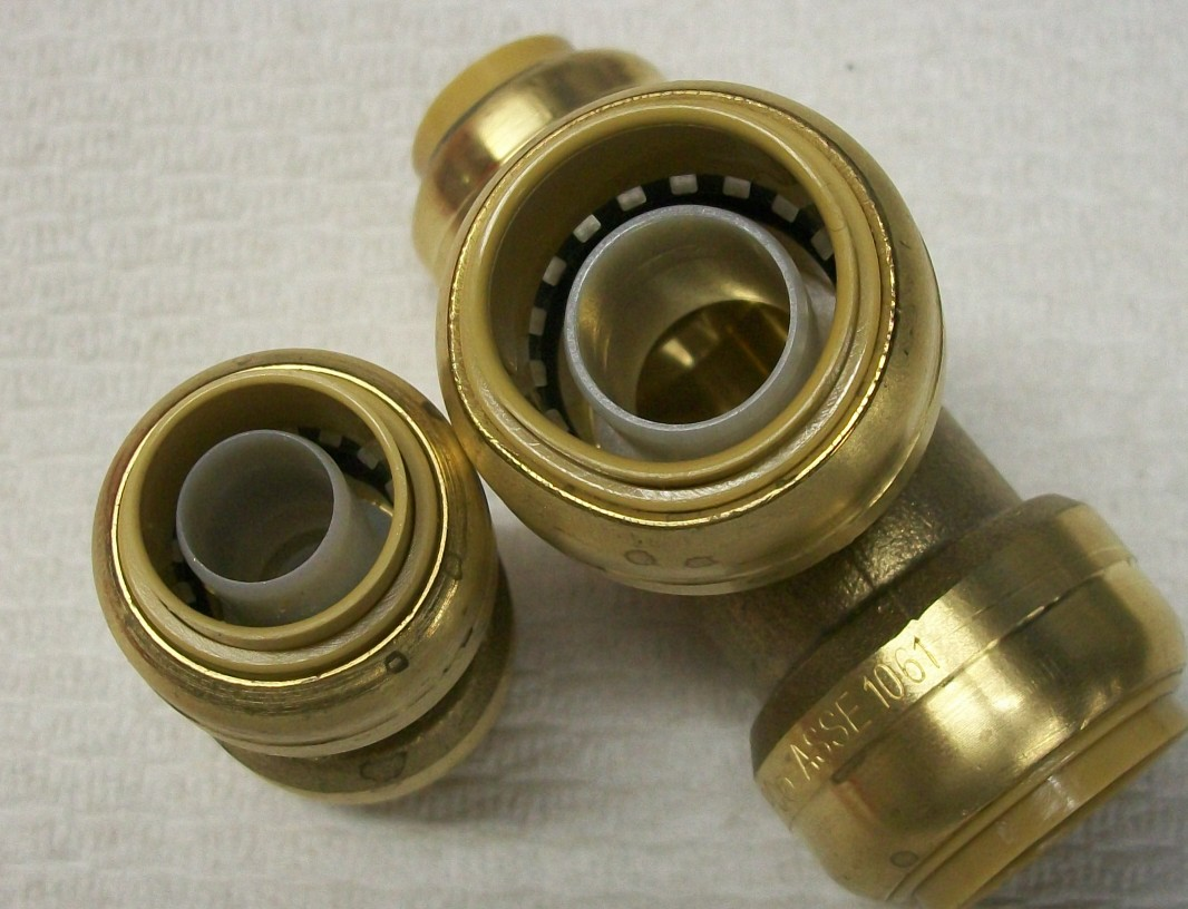 PEX compression connectors make it possible to join a PEX plumbing pipe, as well as copper pipes, together simply by pushing them into each other. PEX or copper pipe is inserted into these openings and it simply clicks together. This technology is replacing copper pipe installations for indoor plumbing.